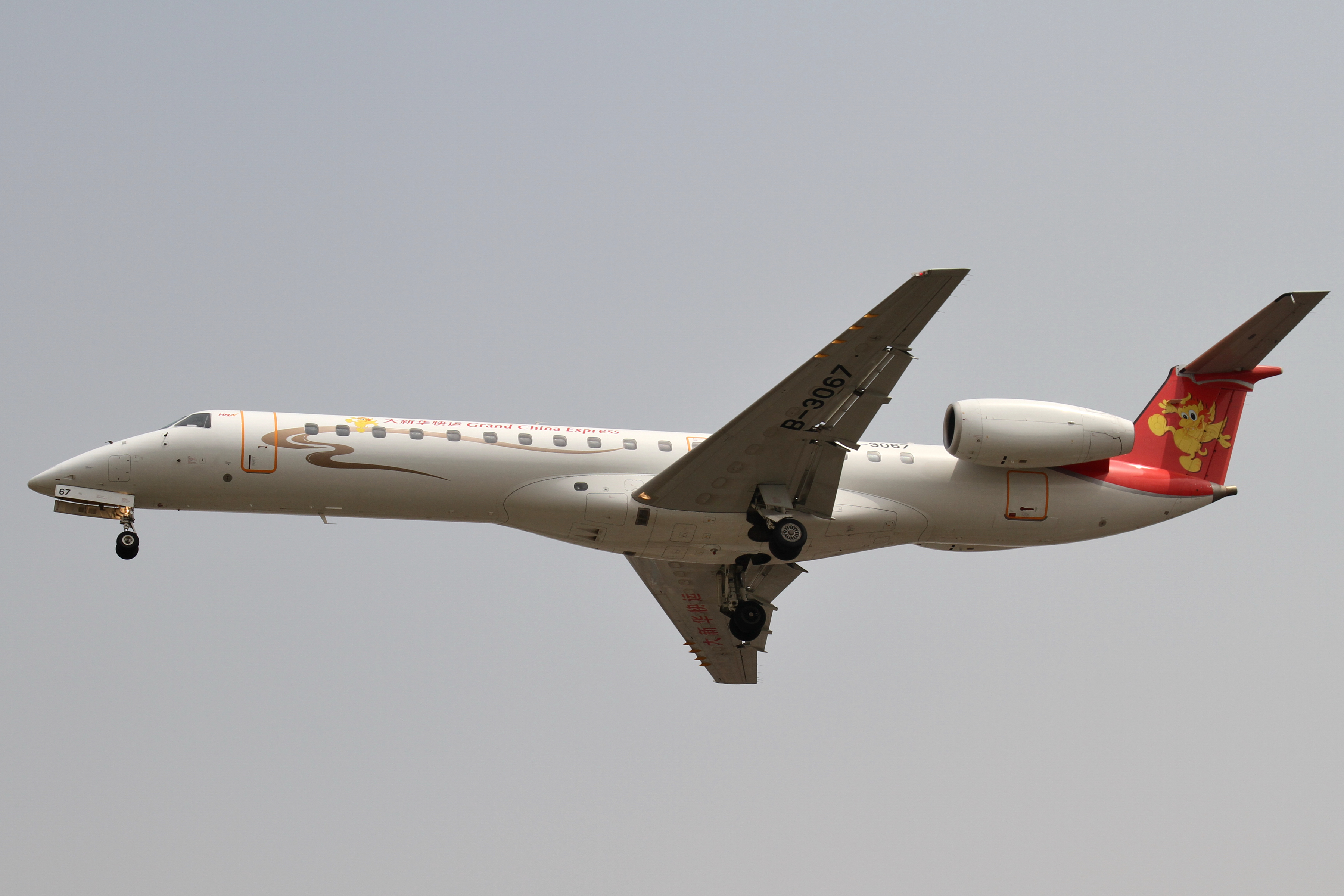 Dalian Airport, Embraer ERJ-145LI, c/n:14501036, Grand China Express